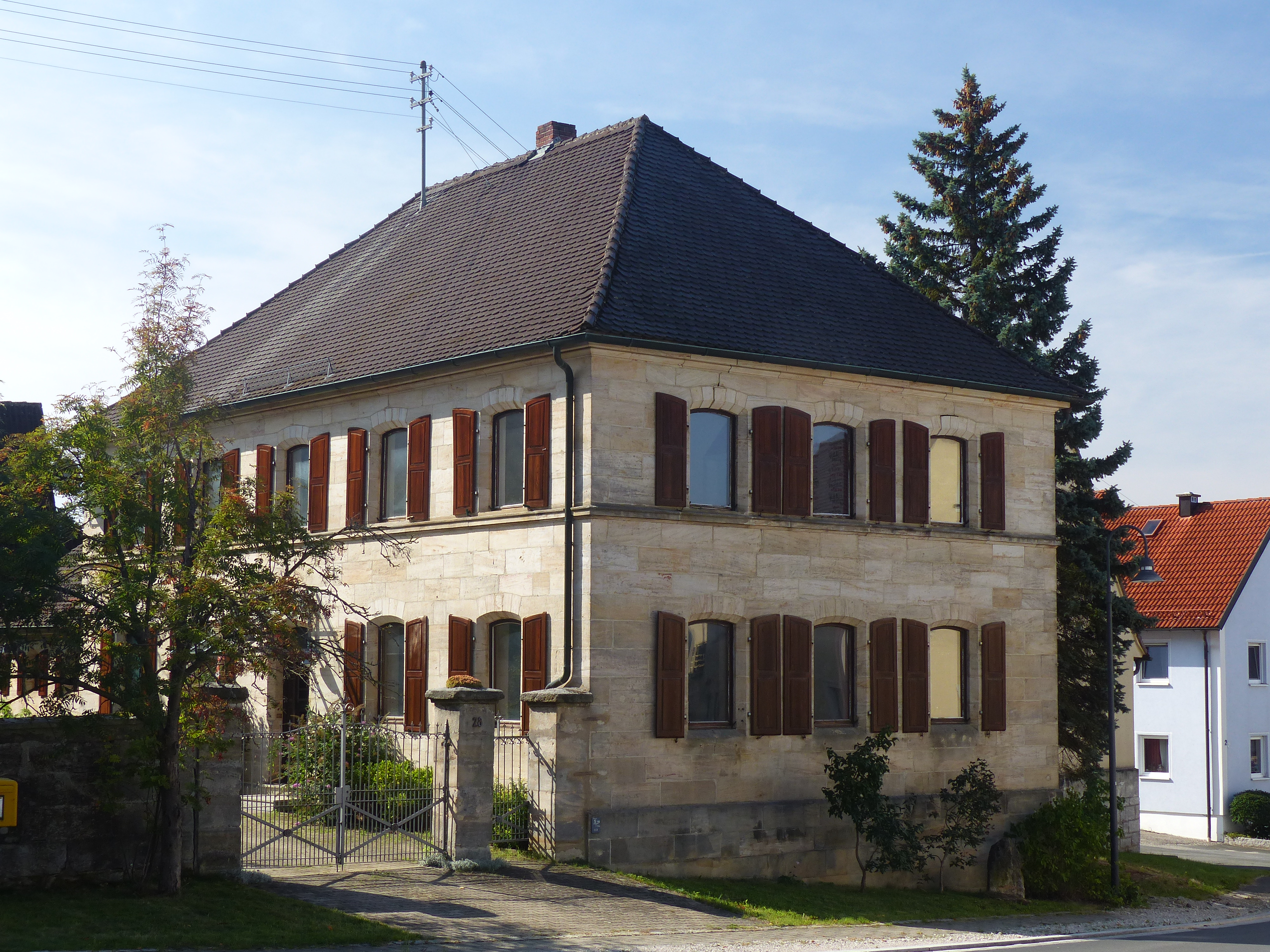 The vicarage of the village Drosendorf am Eggerbach, a district of the municipality of Eggolsheim.